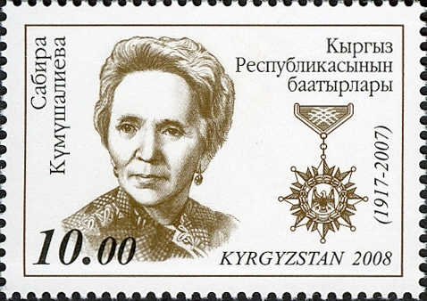 Stamp of Kyrgyzstan